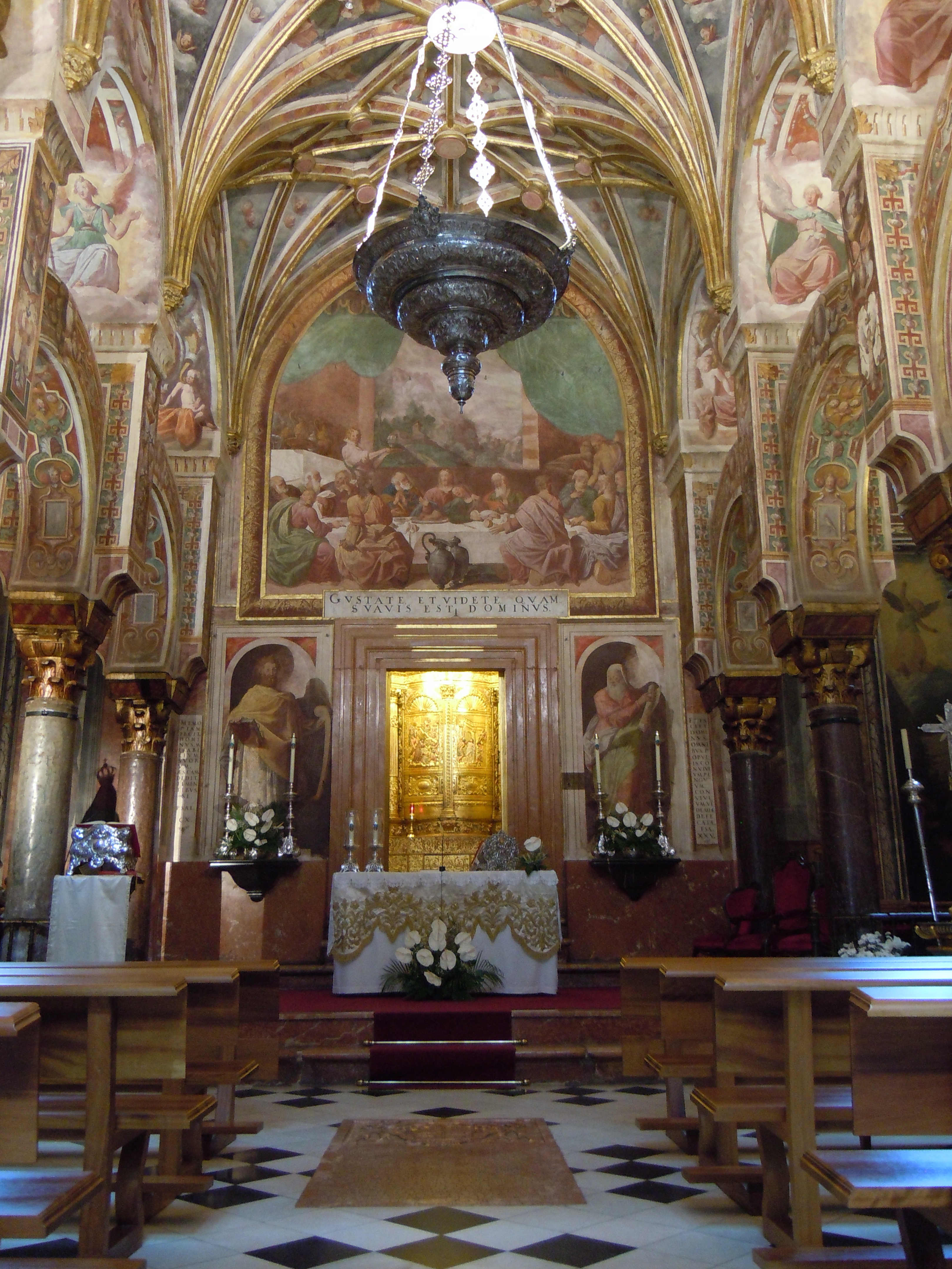 A chapel within la Mezquita, Cordoba.